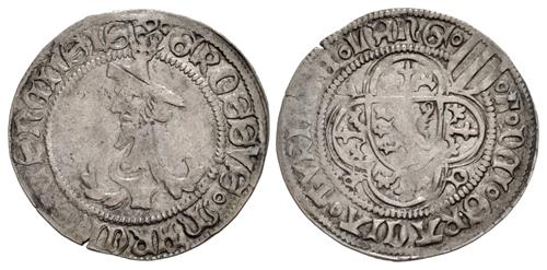 GERMANY, Sachsen-Markgrafschaft Meißen. Friedrich II der Sanftmütige (the Mild). 1428-1464. AR Judenkopfgroschen (28mm, 2.82 g, 6h). • F • DЄI • GRACIΛ • TVRINGA • LANG (annulet stops), coat-of-arms within ornate quadrilobe; coat-of-arms in second spandrel, C R V in others / GROSSVS • MARCh • mISnЄIISIS (annulet stops), capped head left atop ornate base. Grierson, Coins of Medieval Europe 442; cf. Krug 764. Toned. VF.